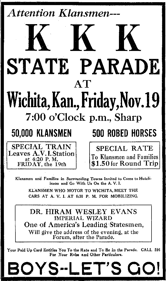 This image is a faithful digitalization of an advertisement of a KKK "State Parade" to be held on November 19, 1926 in Wichita, Kansas, and stating Hiram Wesley Evans was scheduled to give address at the rally.